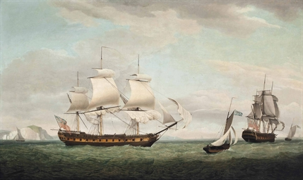 The East Indiaman Pitt of London in two positions in the Channel off the Needles, Isle of Wight indistinctly signed and dated 'T.... Whitcombe 1792' (lower left) oil on canvas 36½ x 59¾ in. (92.7 x 151.5 cm.)